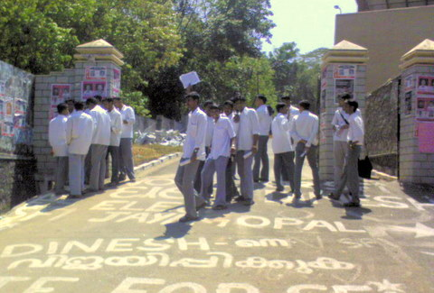 Election day at college of engineering adoor